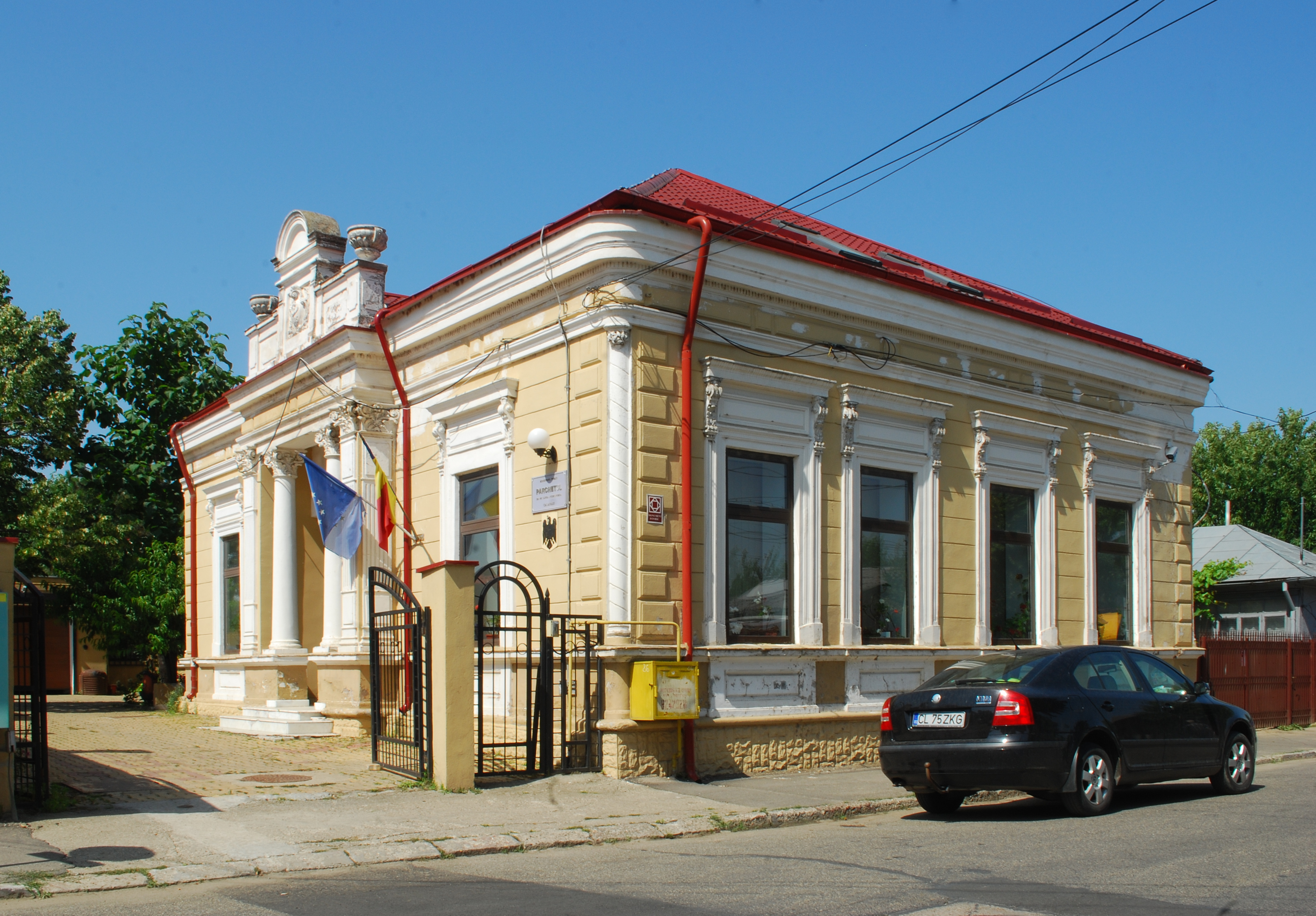 City attorney's office in Călărași, Romania